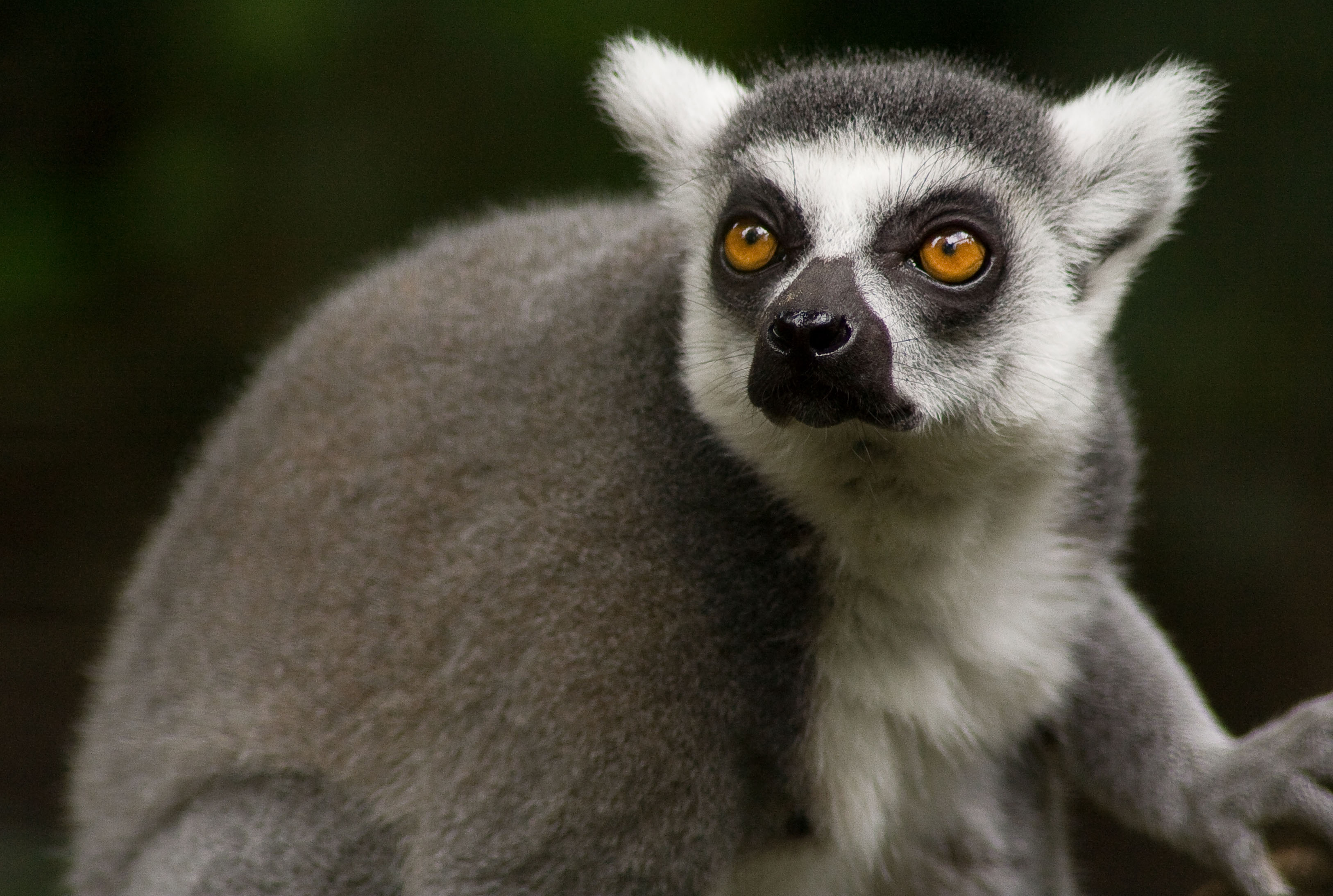 Ring-tailed Lemur (Lemur catta)